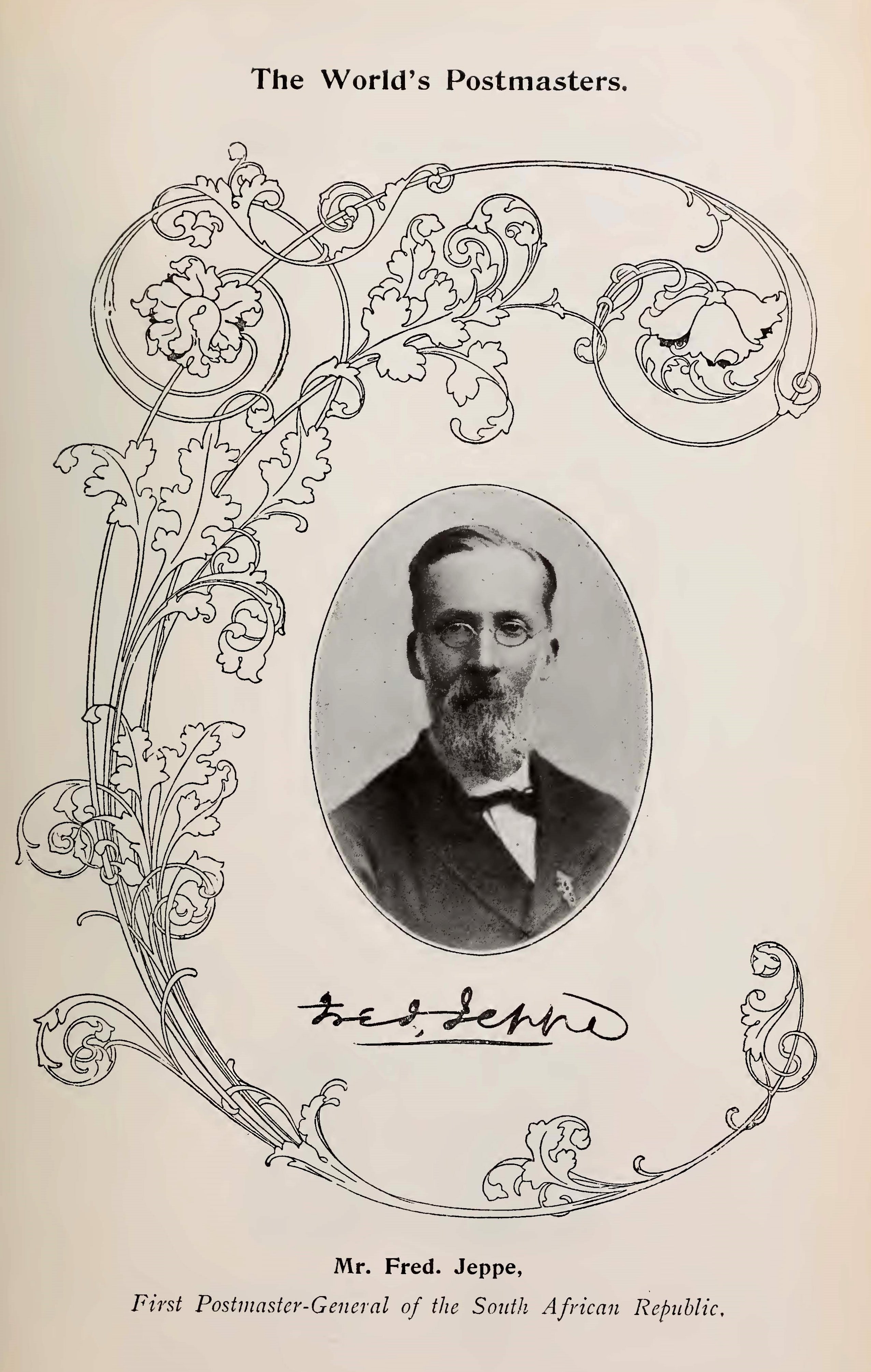 Friederich Jeppe. Died 1898.